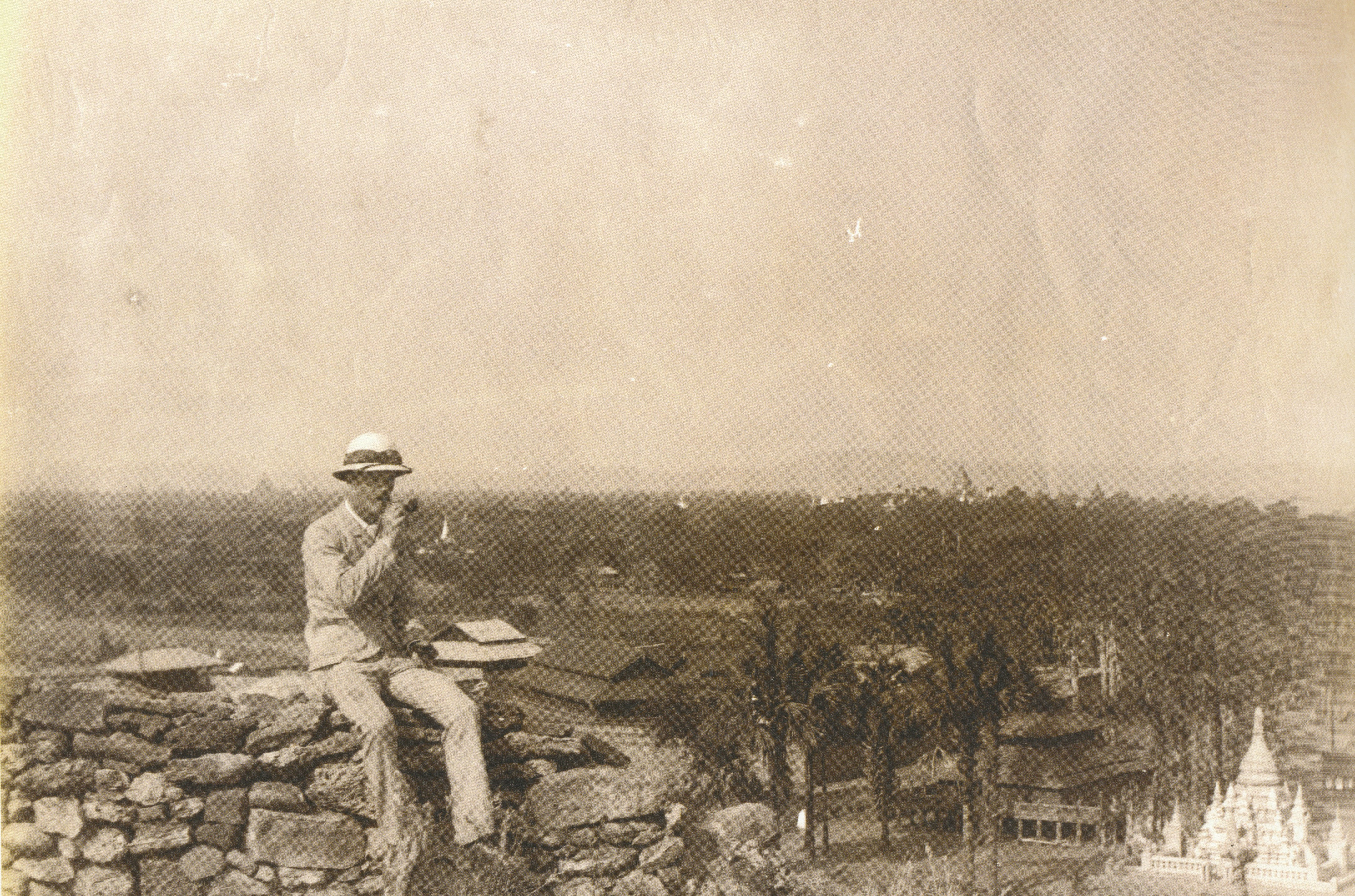 Self-portrait by Oertel made during his 1892-1893 journey in Burma, after F.O. Oertel, A Tour in Burma in March and April 1892, Rangoon: Supt. Of Govt. Printing, Burma, 1893, plate 23.